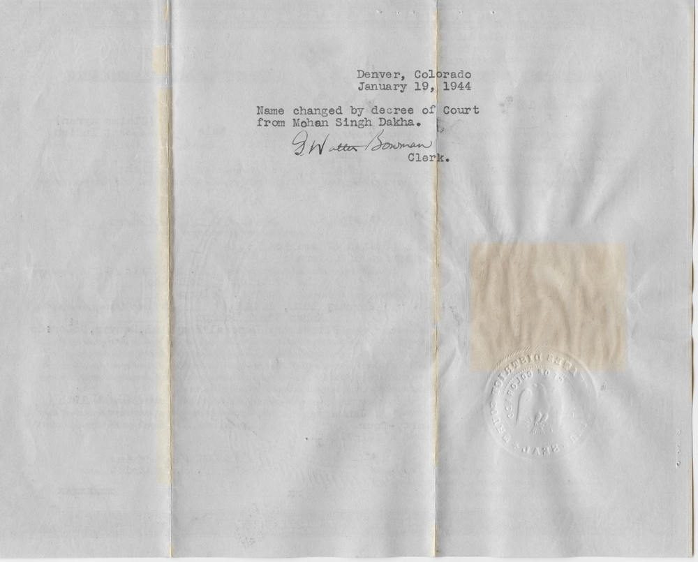 An annotation on the back of Mohan Singh Sekhon's naturalization certificate, detailing his court-ordered change of name.